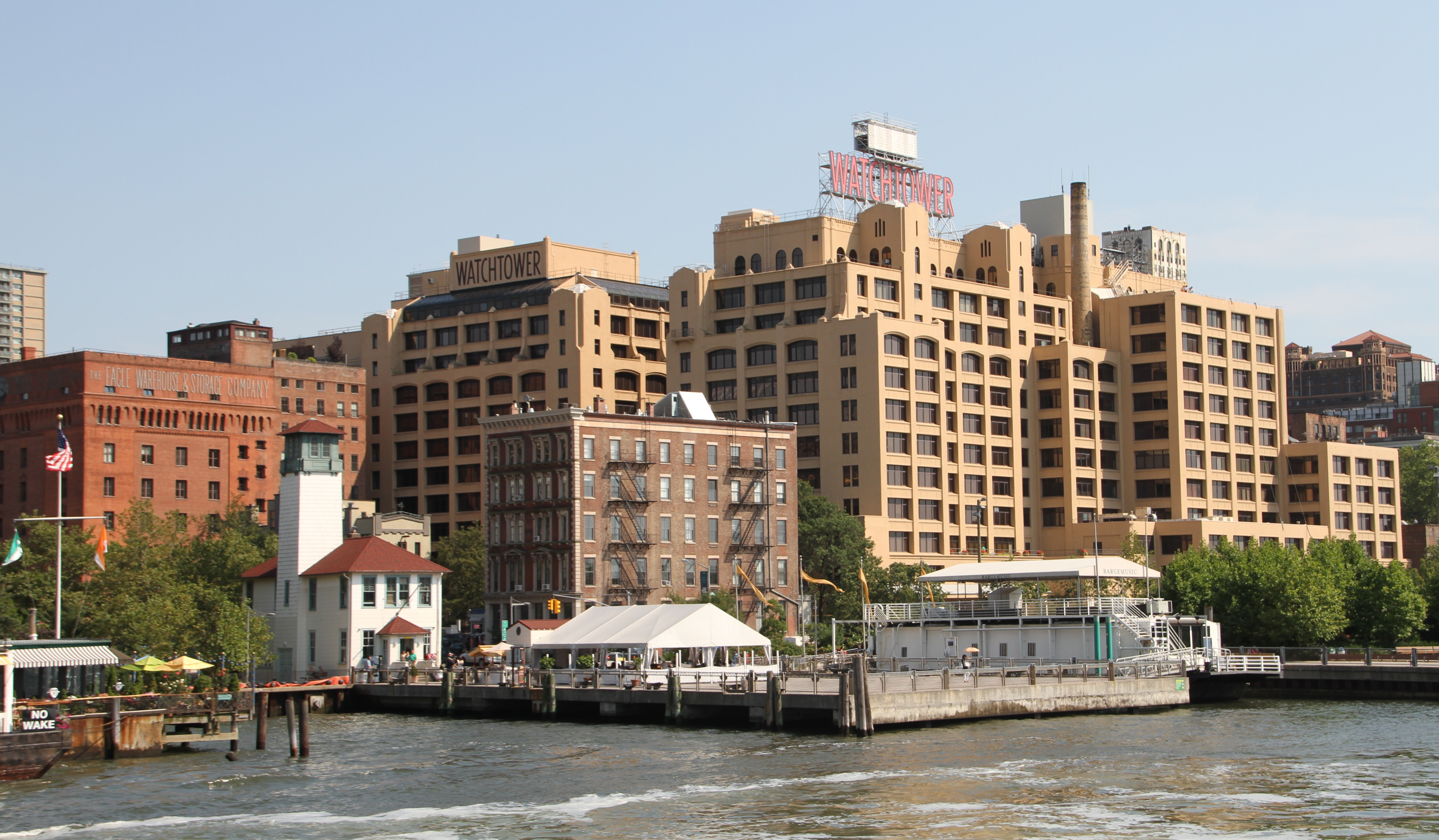 Headquarters of the Jehovas Witnesses, Brooklyn (New York City).